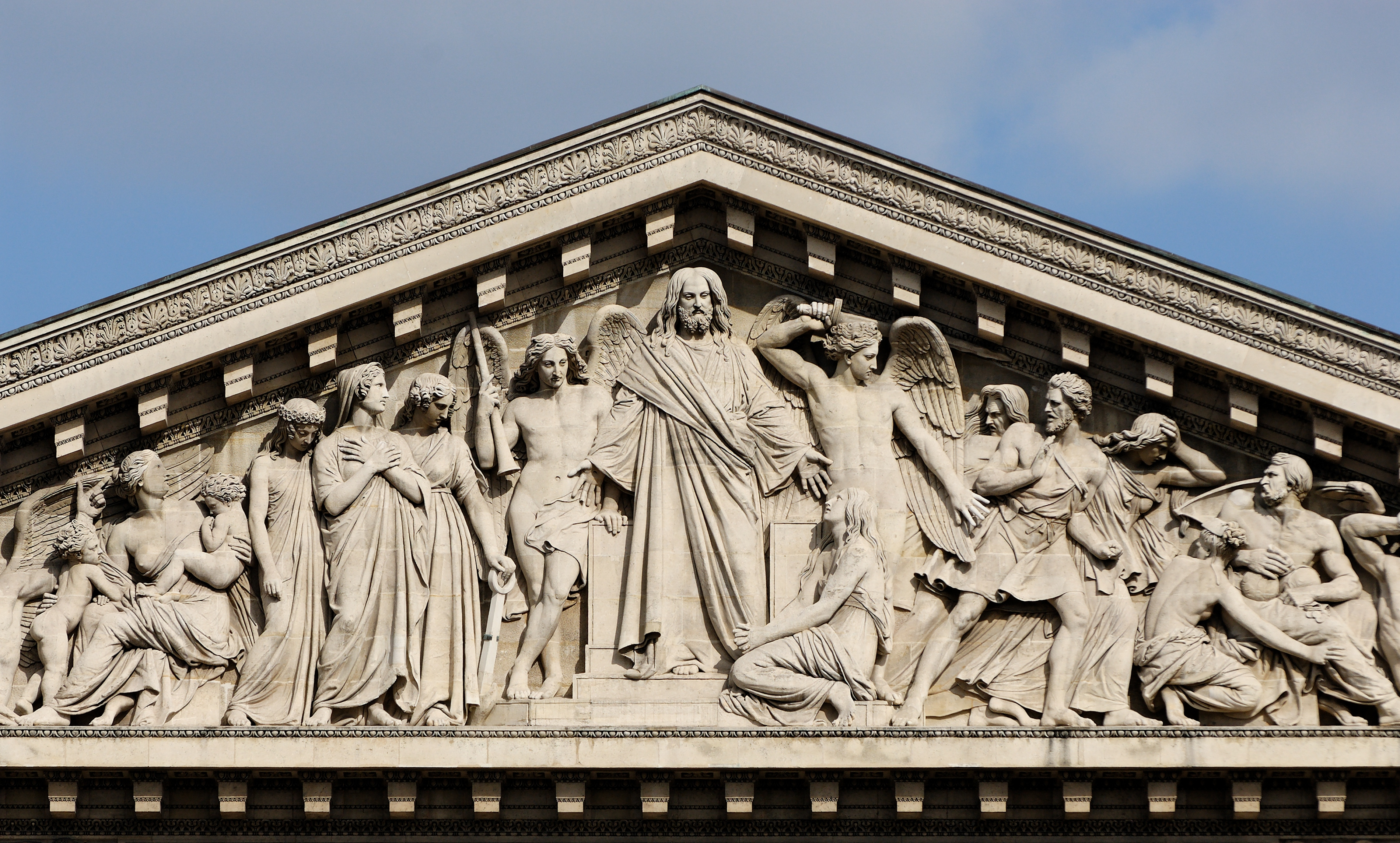 The Last Judgement (detail) by Philippe Henri Lemaire (1833). Pediment of the Madeleine church, 8th arrondissement of Paris.